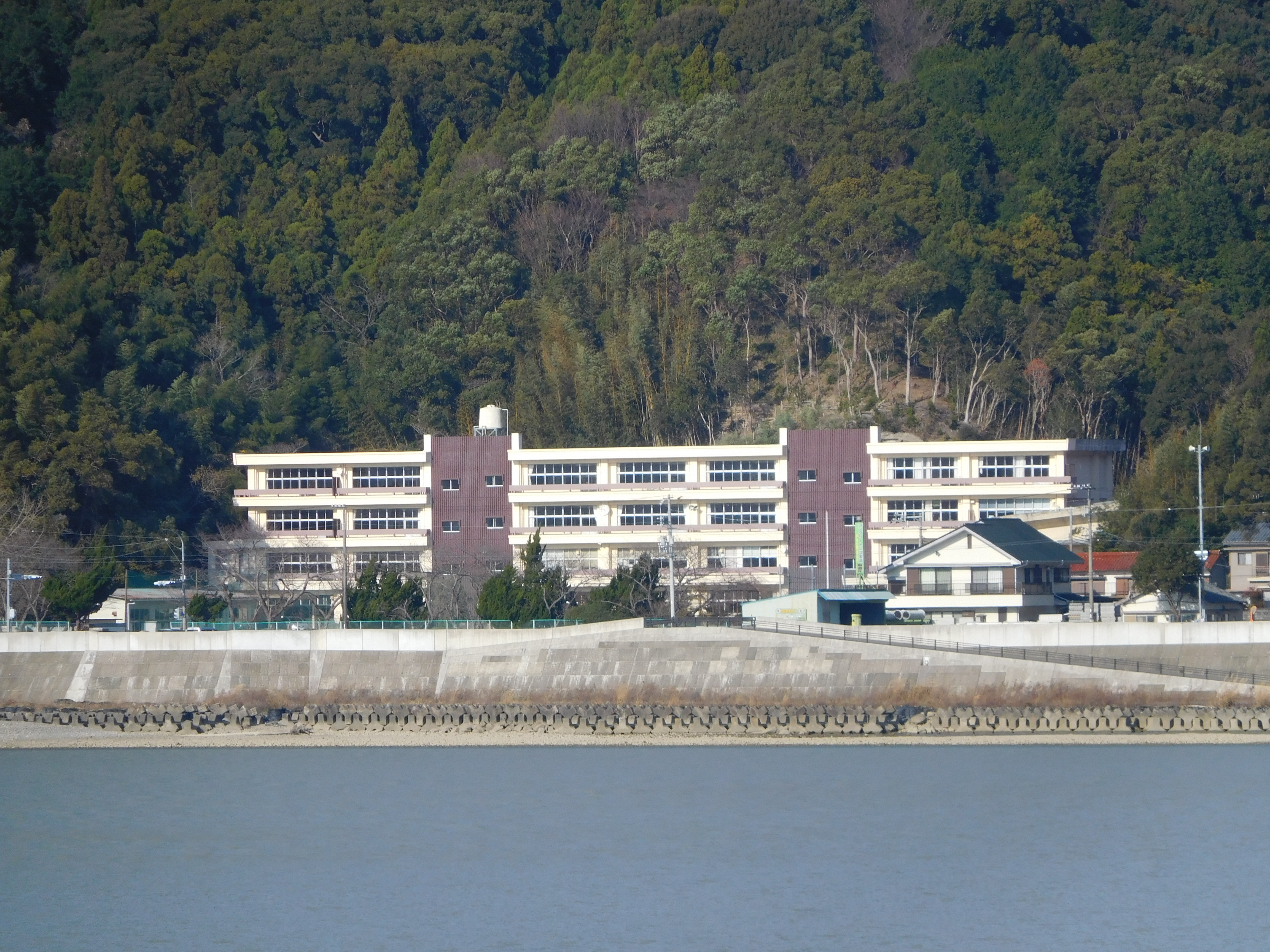 This is Kiho town Yabuchi junior high school, which located in Udono, Kiho, Mie, Japan. This photo was taken from Shingu, Wakayama, Japan.